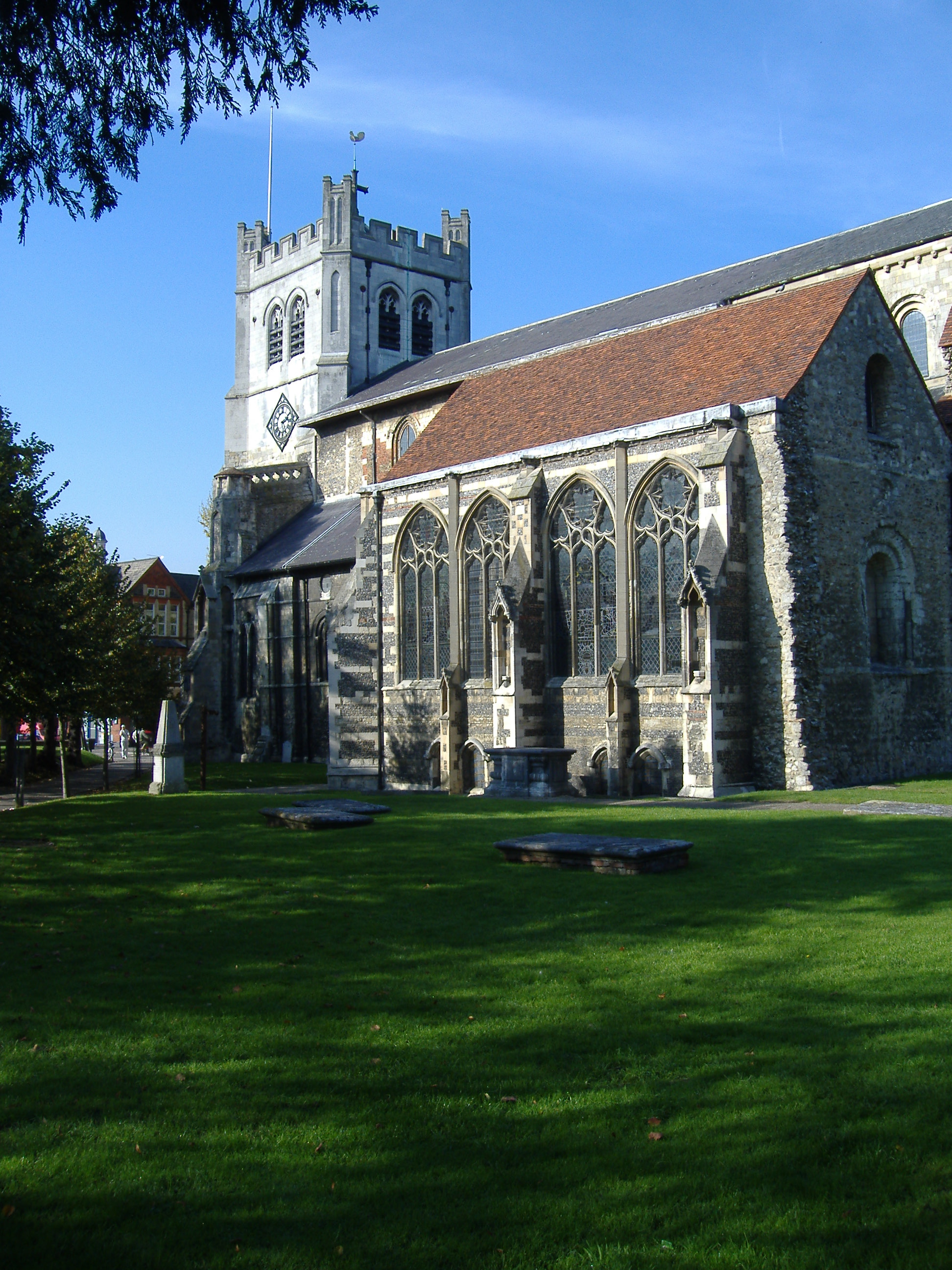 Waltham Abbey in the town of Waltham Abbey, Essex, England.